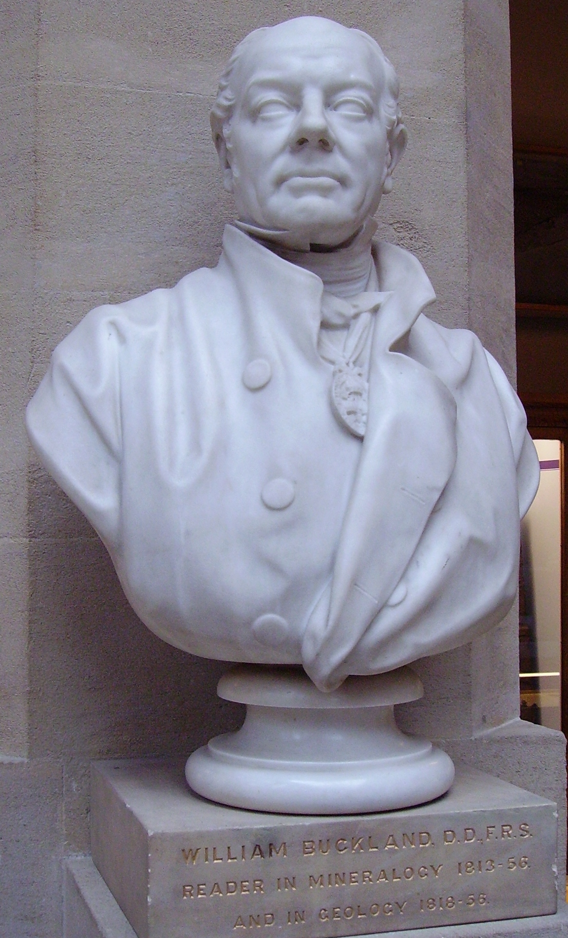 Photographer: User:Ballista